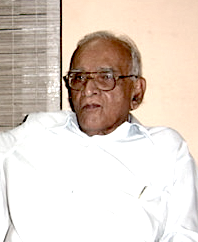 Portrait picture of Dr. P.K.R Warrier